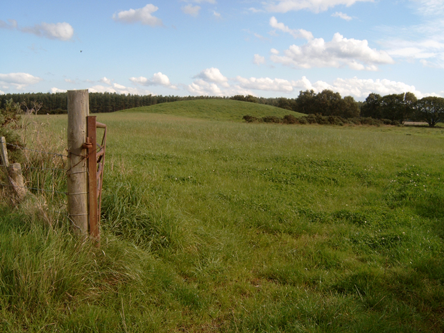 Macbeth's Hillock (2.5km from Brodie Castle) Macbeth's Hillock (49m) lies between an area known as the Hardmuir and the A96 (Inverness to Aberdeen trunk road), about 2.5km south-west of Brodie Castle and 250m east of the Nairn(shire)-Moray(shire) boundary.